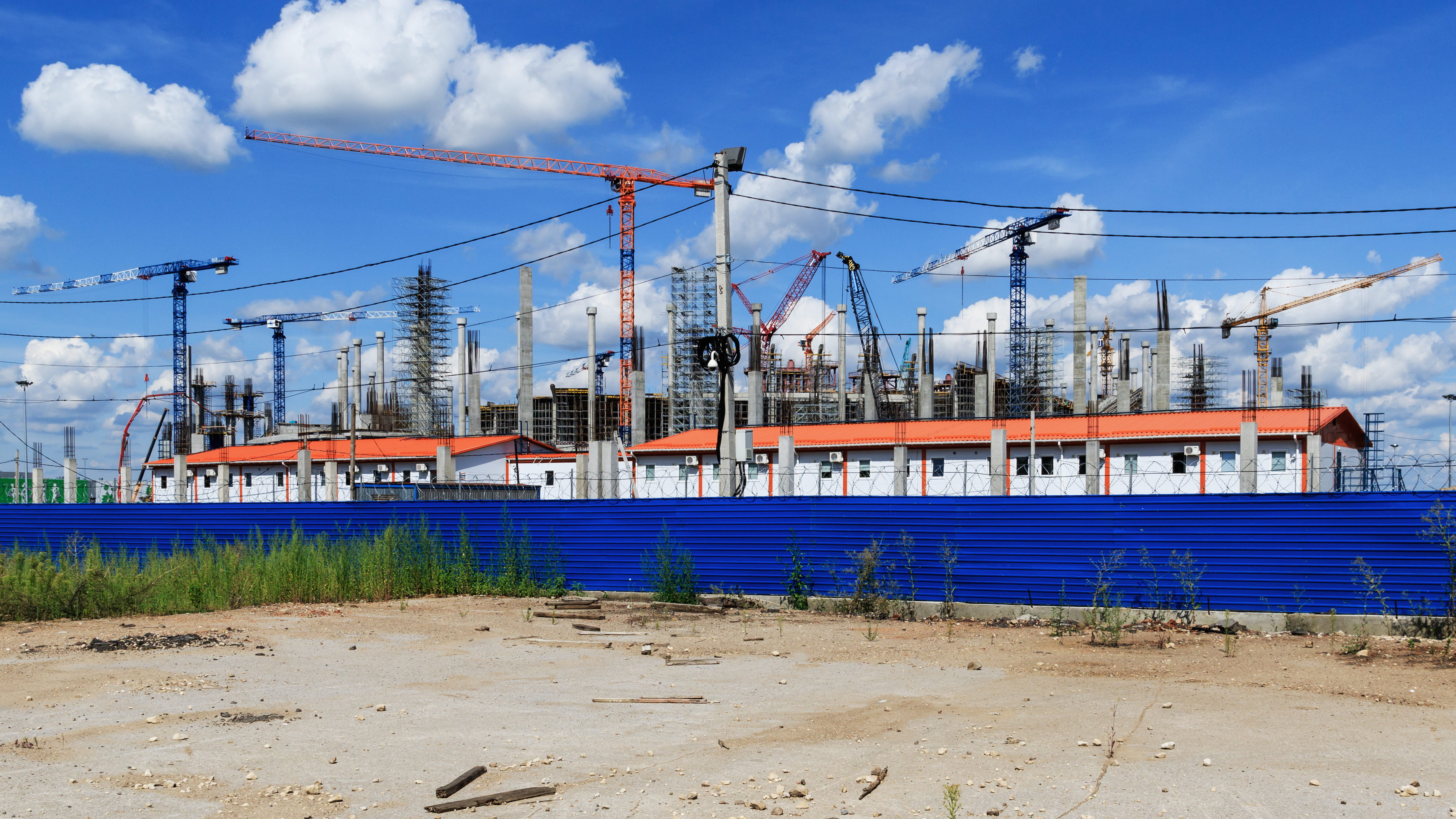 Construction site of football stadium at Strelka. Nizhny Novgorod, Russia.